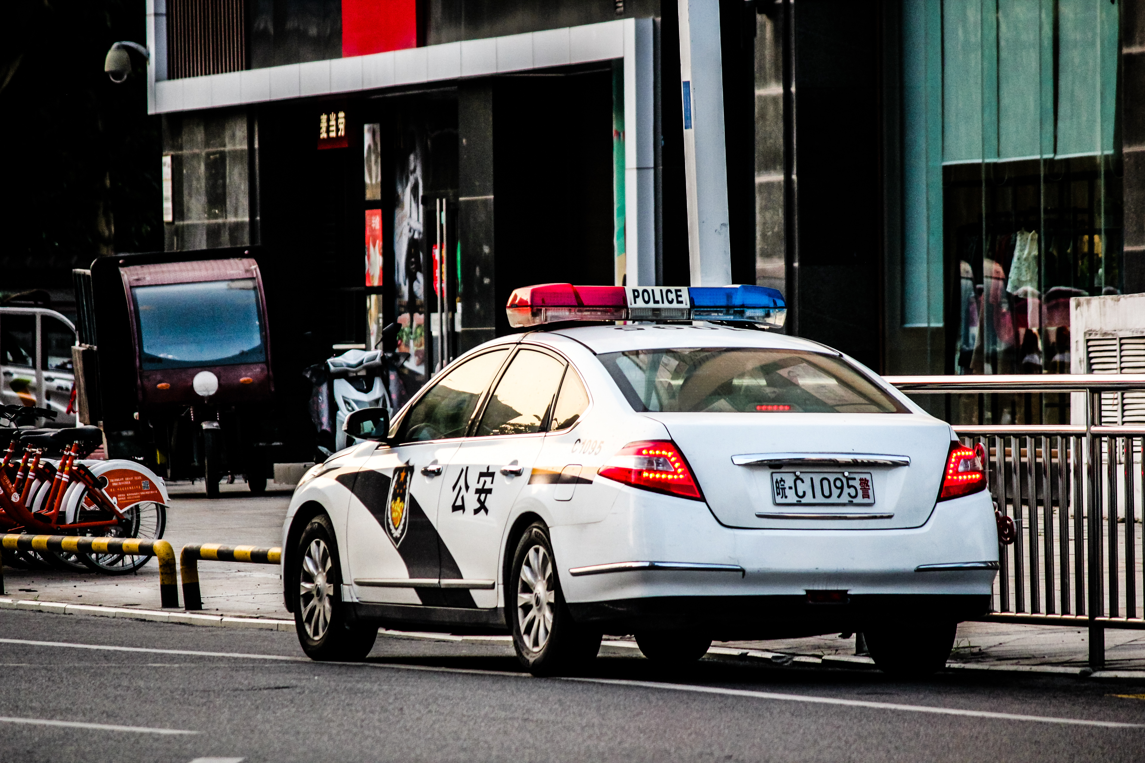 Nissan Teana J32 Police Car in China